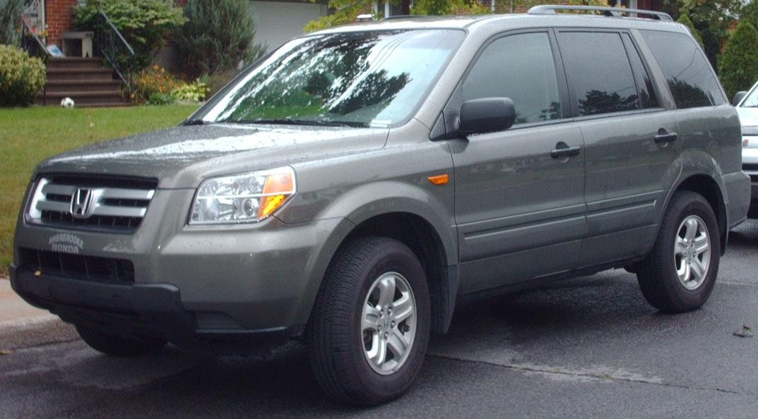 2006-2008 Honda Pilot photographed in Montreal, Quebec, Canada.